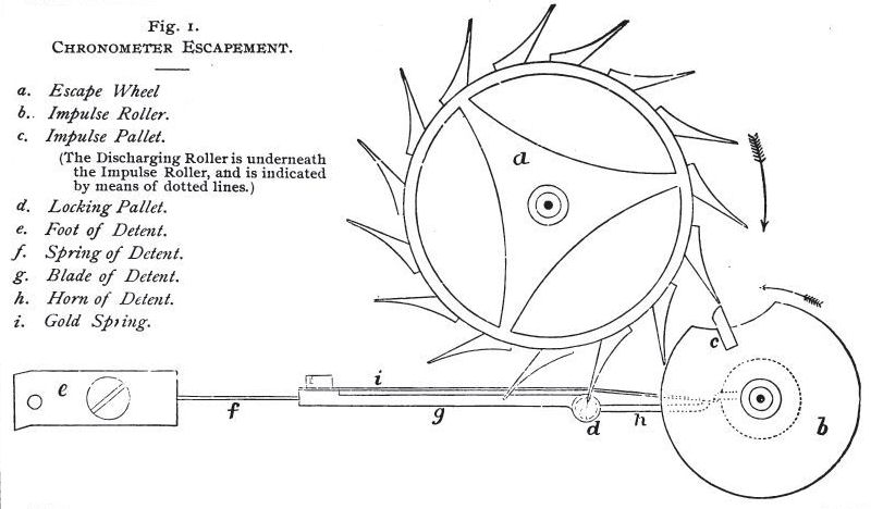 Diagram of the chronometer detent escapement. The escape wheel (a) advances by one tooth for each full oscillation of the impulse roller (b), which is attached to the balance wheel (not illustrated). As depicted, the impulse roller is rotating counterclockwise, and the impulse pallet (c) has rotated to a position under an escape wheel tooth, without quite touching it; the escape wheel is held in place by the locking pallet (d), which is held in position by the spring-loaded detent arm (e, f, g, h). This will be released when the discharging pallet (dotted lines under impulse roller) presses against the gold spring (i), which in turn presses on the detent horn (h), retracting the detent blade (g) and the attached locking pallet. The escape wheel rotates freely for a short distance until it contacts the impulse pallet, after which the wheels rotate together, transferring energy from the spring-drive escape wheel to the impulse wheel. Next, the discharging pallet falls off the end of the gold spring, and the detent arm springs back into place. When the impulse pallet rotates so far that it releases the escape wheel, the wheel rotates a small distance further until its next tooth engages the locking pallet. This additional rotation is just enough so that when the impulse wheel rotates back (clockwise), the impulse pallet does not hit either escape wheel tooth. During this portion of the cycle, the locking pallet remains in place; the gold spring acts like a one-way ratchet, being pushed aside by the discharging pallet without moving the detent arm.